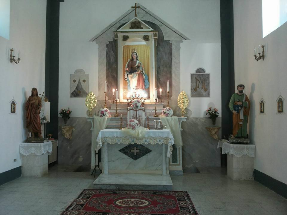 Our Lady of Mount Carmel - Acquafondata - Italy